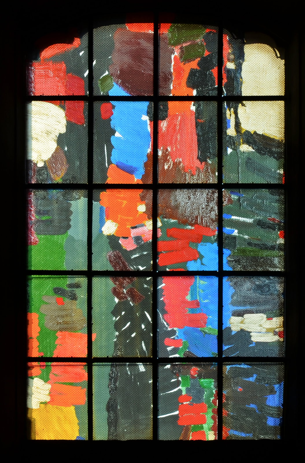 Sonia Jakuschewa, Garden of Eden, Stained glass window, 2016